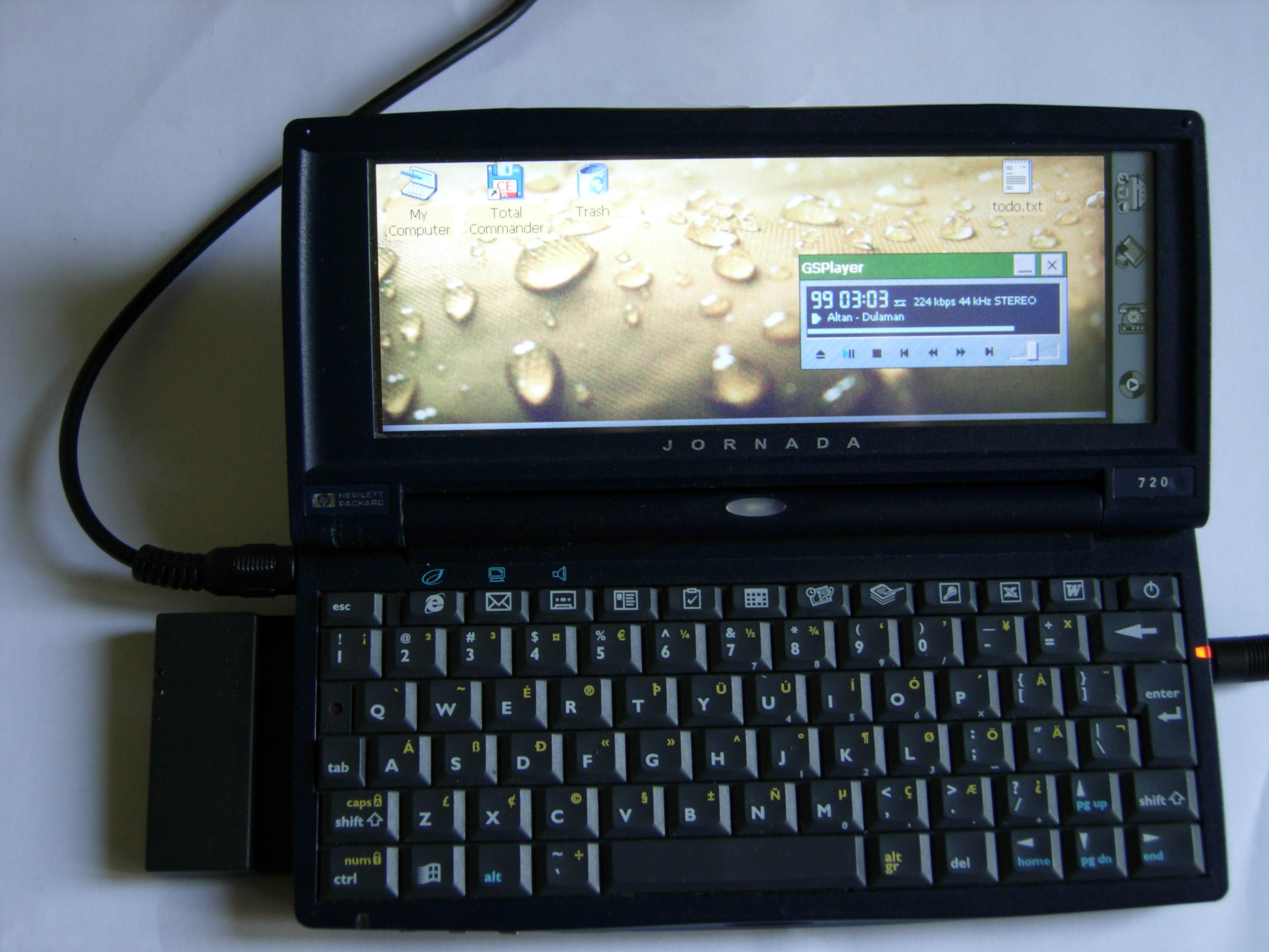 HP Jornada 720 running GSPlayer, with ORiNOCO GOLD wifi card.